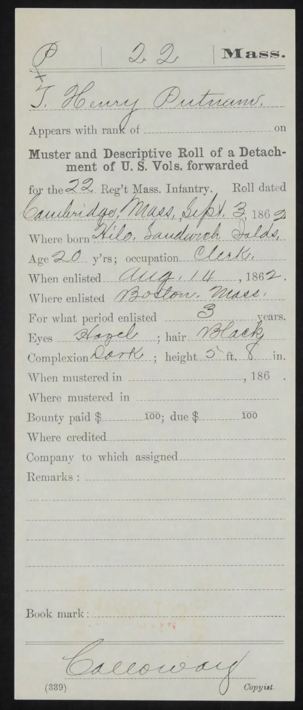 United States Enlistment card of Timothy Henry Hoʻolulu Pitman.